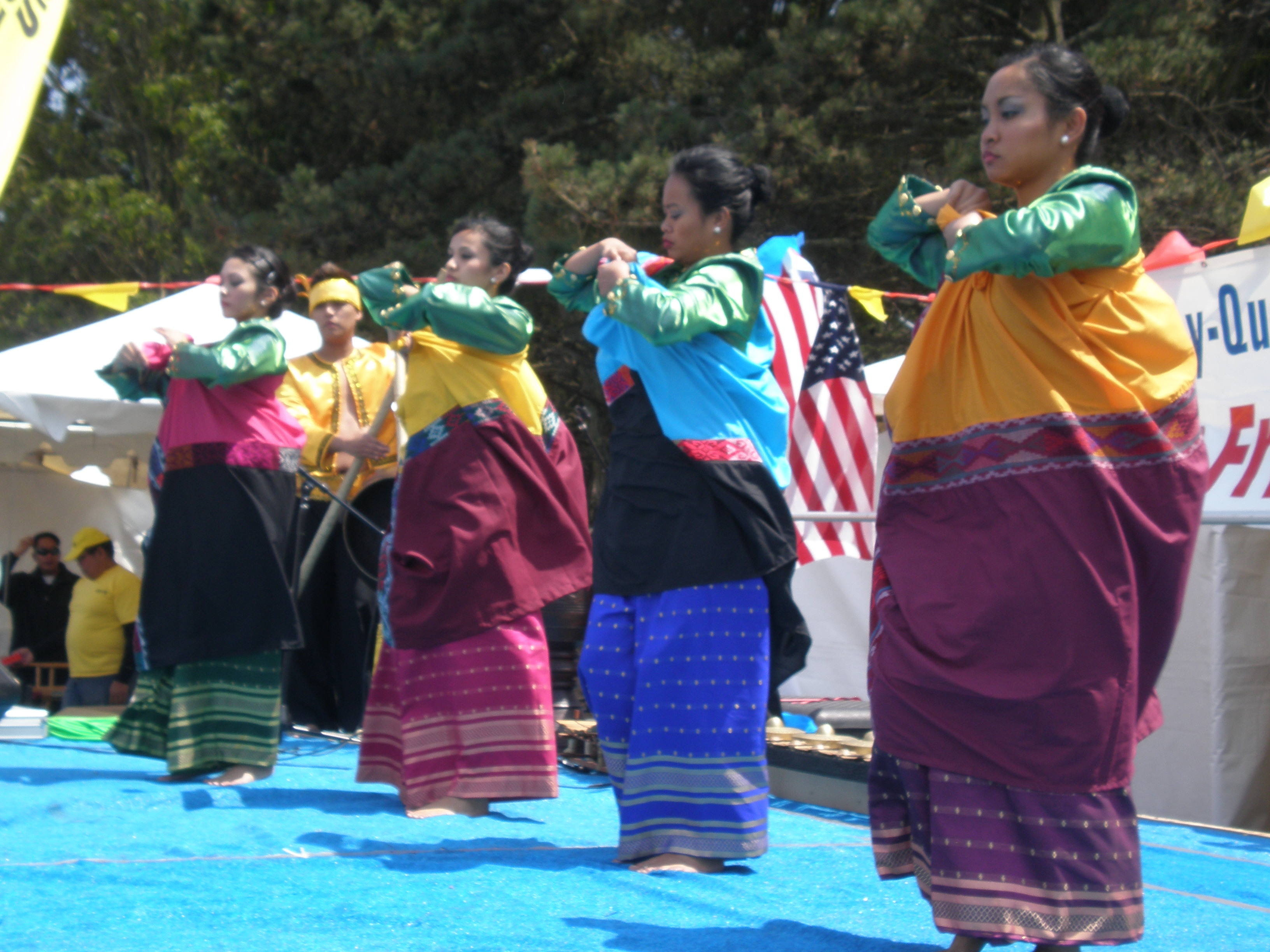 Members of the San Francisco based Parangal Dance Company performing the Kappa Malong Malong dance of the Maranao people from Mindanao as part of their Bangsamoro suite of dances at the 14th Annual Fil-Am Friendship Celebration at Serramonte Center in Daly City, California.